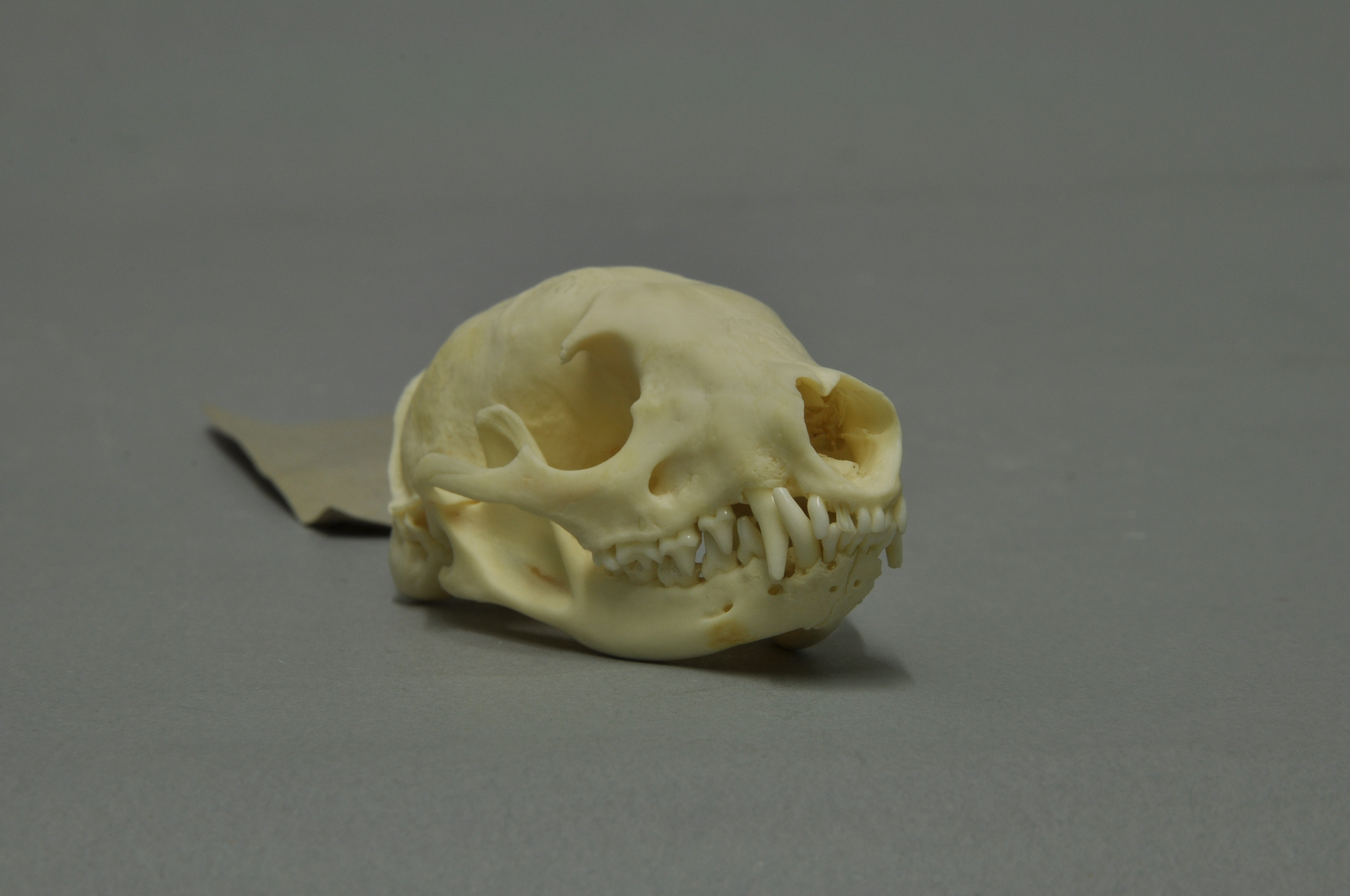 Common kusimanse Crossarchus obscurus, skull, Coll. Museum Wiesbaden